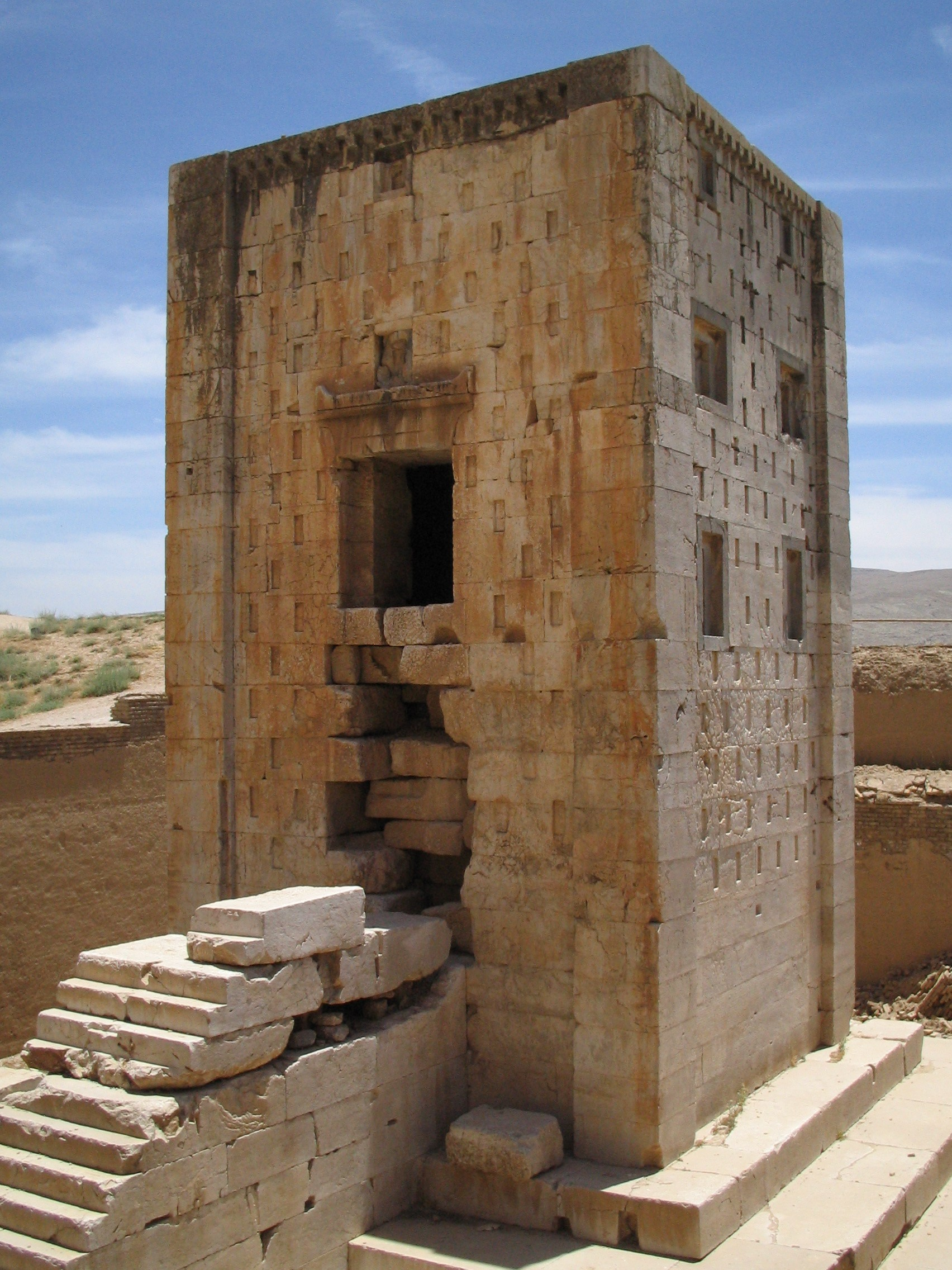 A tower that was supposedly used as a fire temple in Naghsh-e-Rostam, Fars Province, Iran. Article: Ka'ba-ye Zartosht.